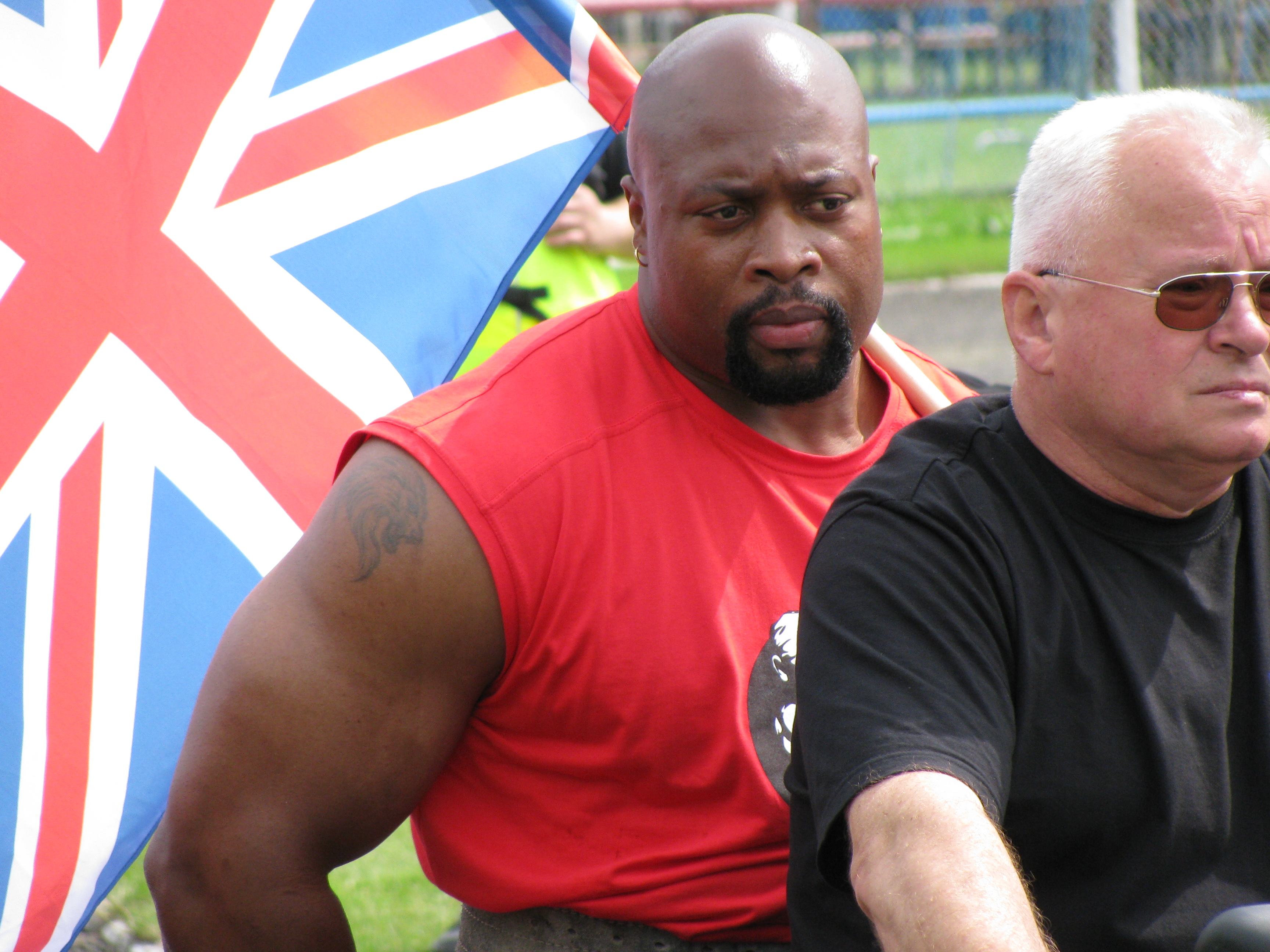 Mark Felix - a strength athlete from England, during Europe's Strongest Man 2009 competition